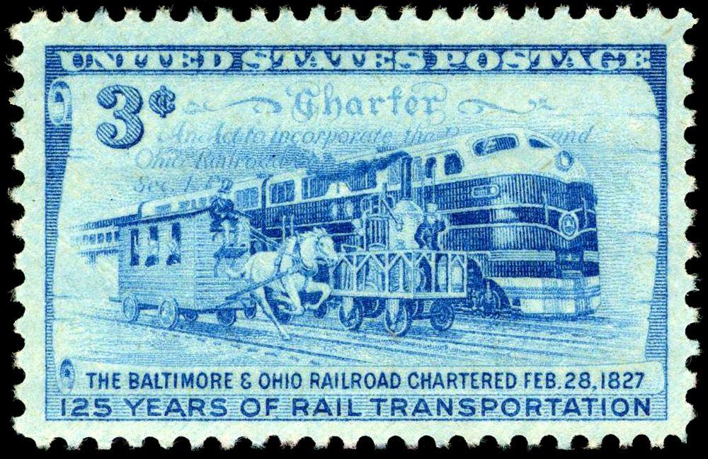 image of US Postage Stamp, depicting B&O Railroad train engine